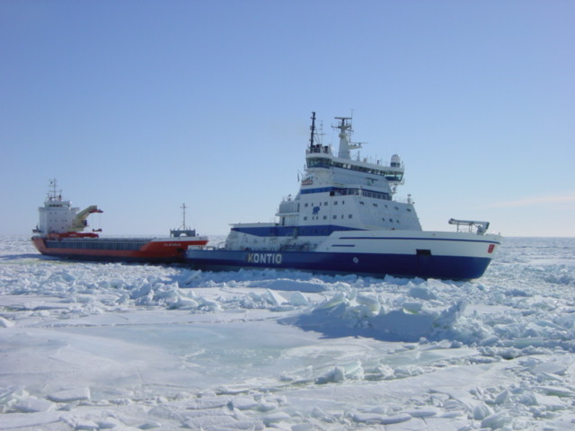 Kontio stuck in the ice while towing cargo vessel IMO Number: 8518120 MMSI Number: 230251000 Callsign: OIRV Length: 100 m Beam: 24 m